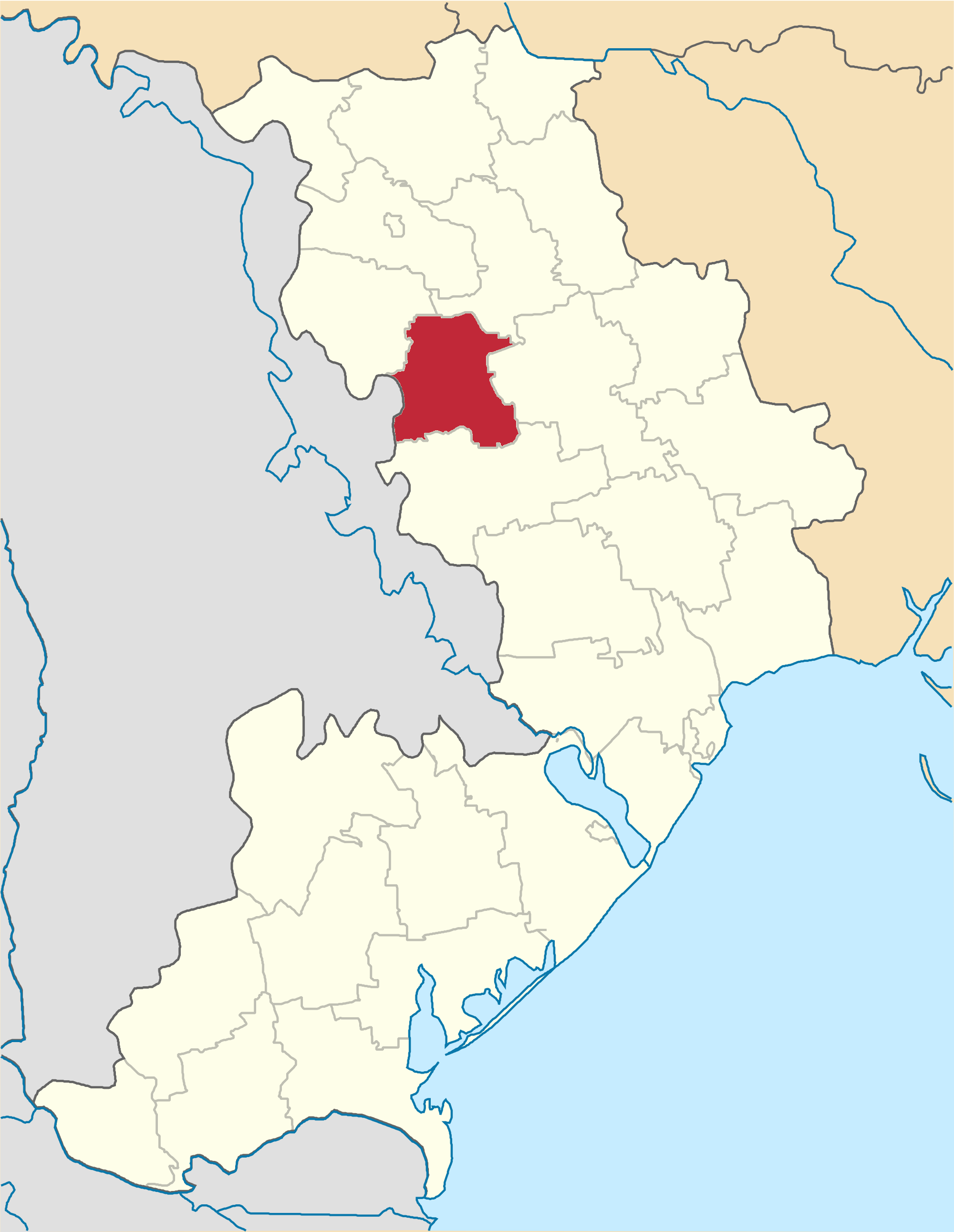 The map of Zakharivka Raion, Odessa Oblast, Ukraine